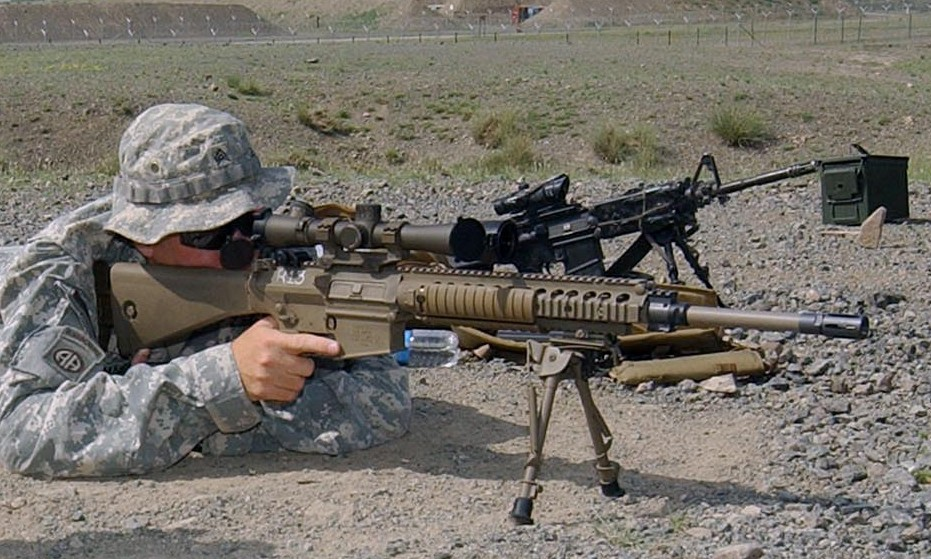 cropped from Image:Army.mil-2007-04-23-093320 XM110.jpg